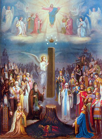 "Glory of Iveria", depicting the foundation of the Georgian Orthodox Church